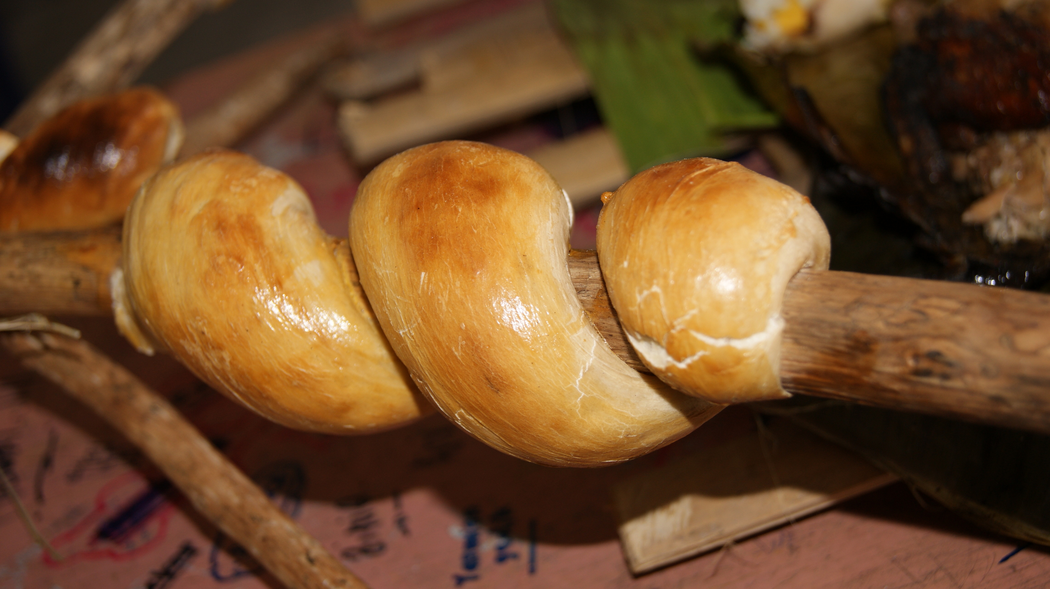 Twist bread made during a Scouts Camp in Malaysia.